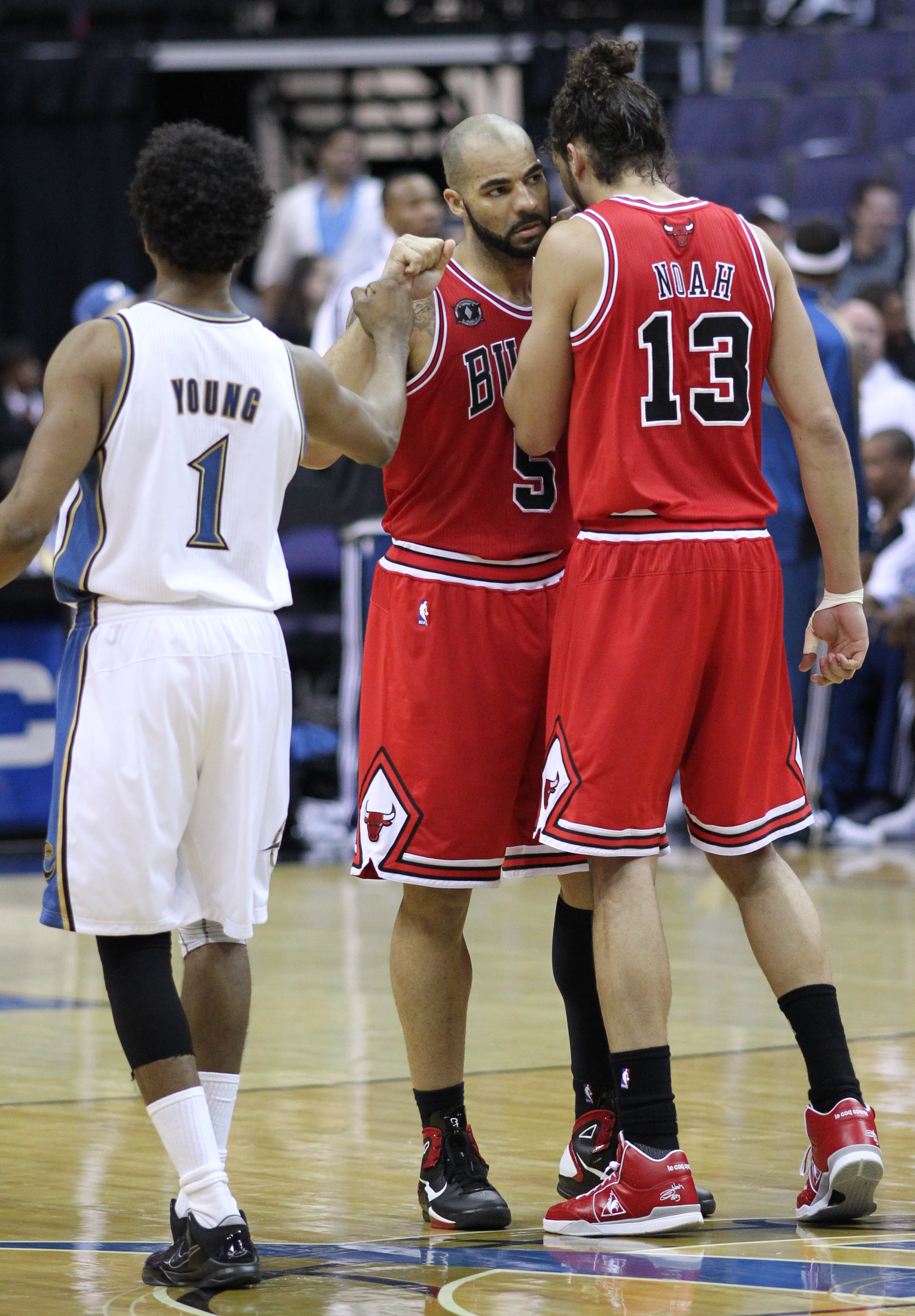 Nick Young, Carlos Boozer and Joakim Noah at Wizards v/s Bulls 02/28/11